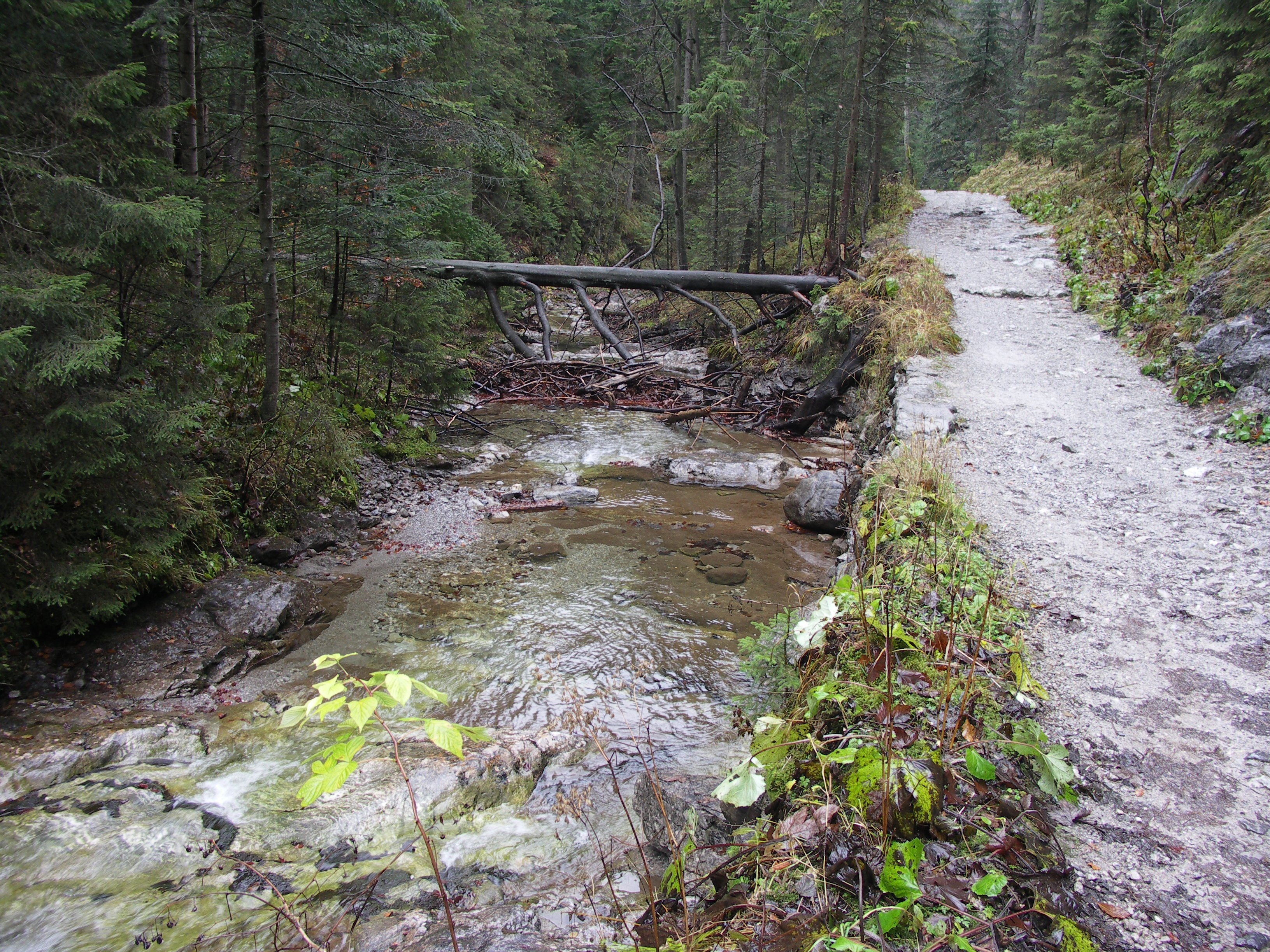 Białego Valley in West Tatra Mountains